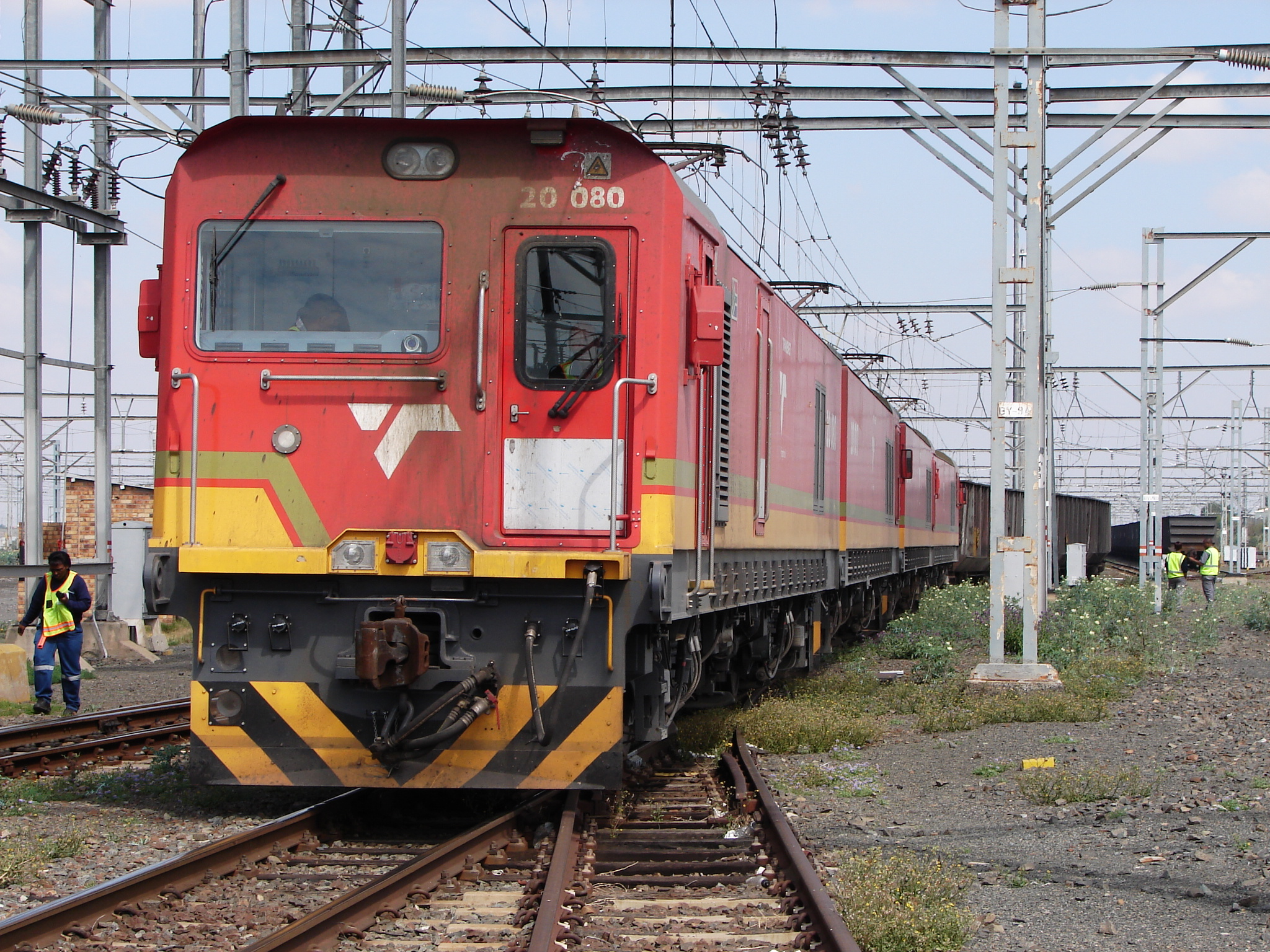 TFR Class 20E no. 20-080Location: Beaufort West, Western Cape